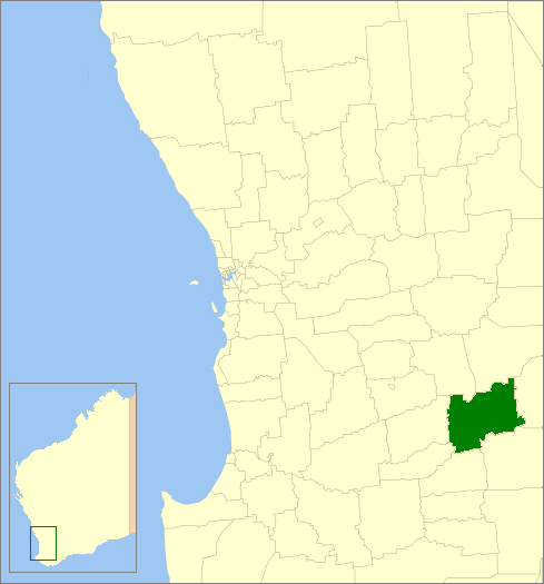 Description=Location of the Local Government Area in Western Australia